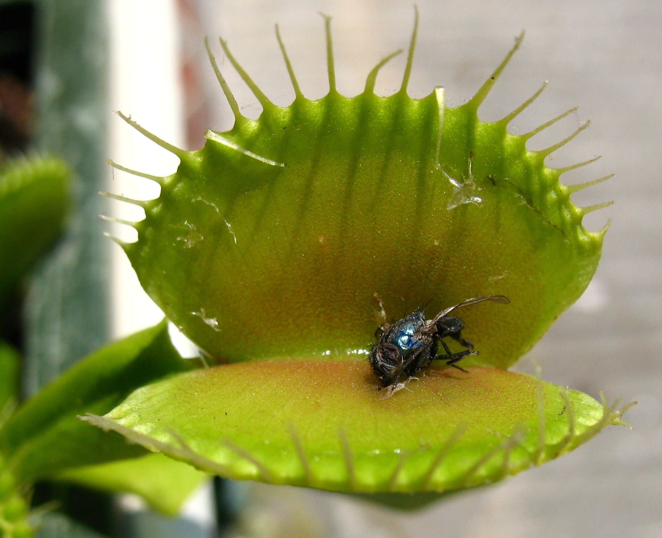 Digested fly in a Dionaea muscipula's trap